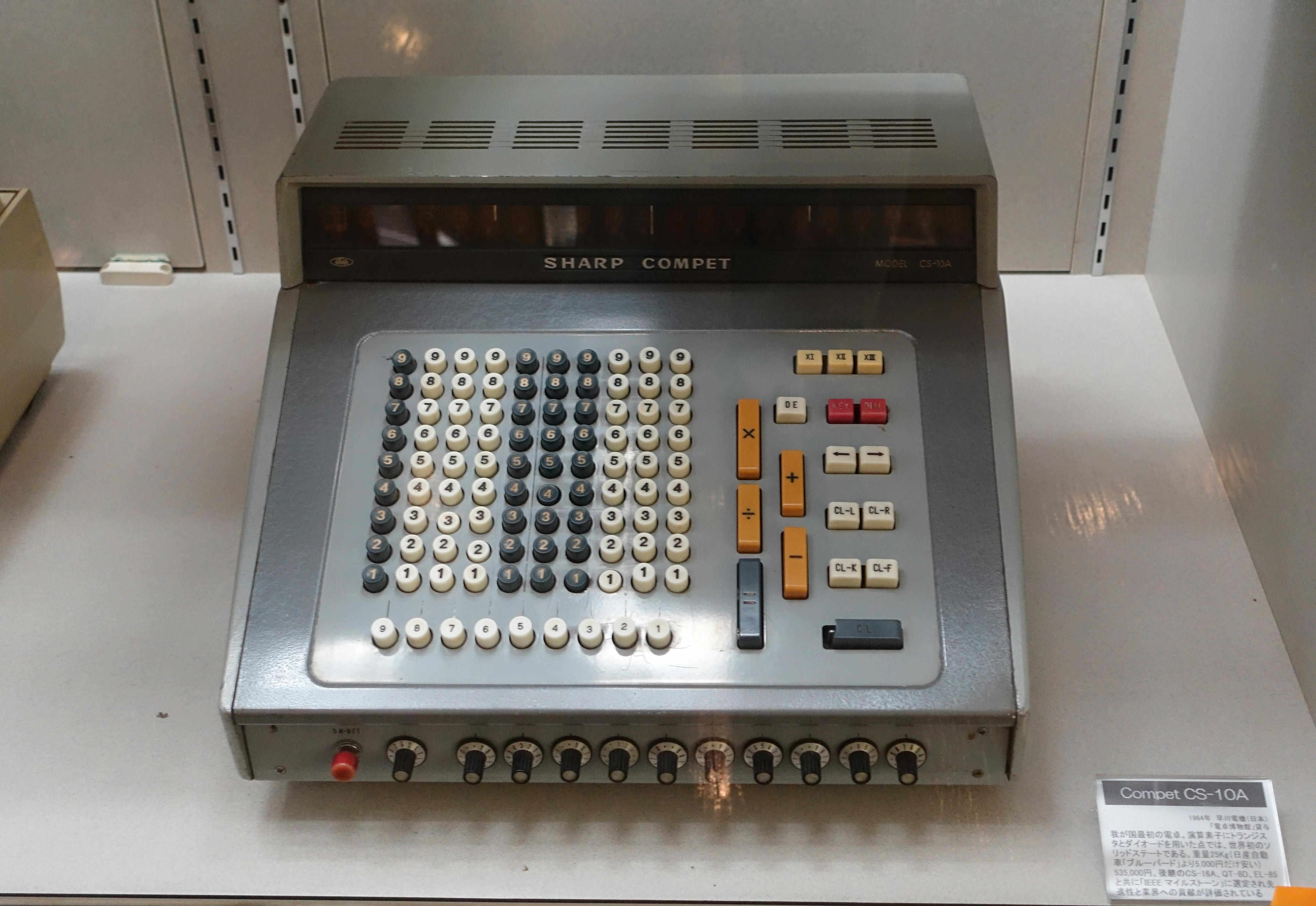 Exhibit in the Ridai Museum of Modern Science, Tokyo University of Science, Kagurazaka campus - 1-3 Kagurazaka, Shinjuku-ku, Tokyo.